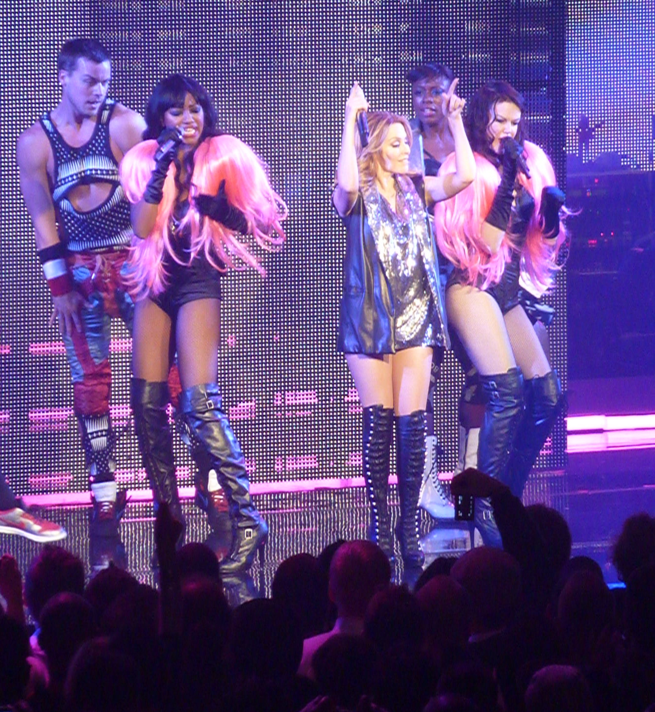 Kylie Minogue at the Hammerstein Ballroom NYC